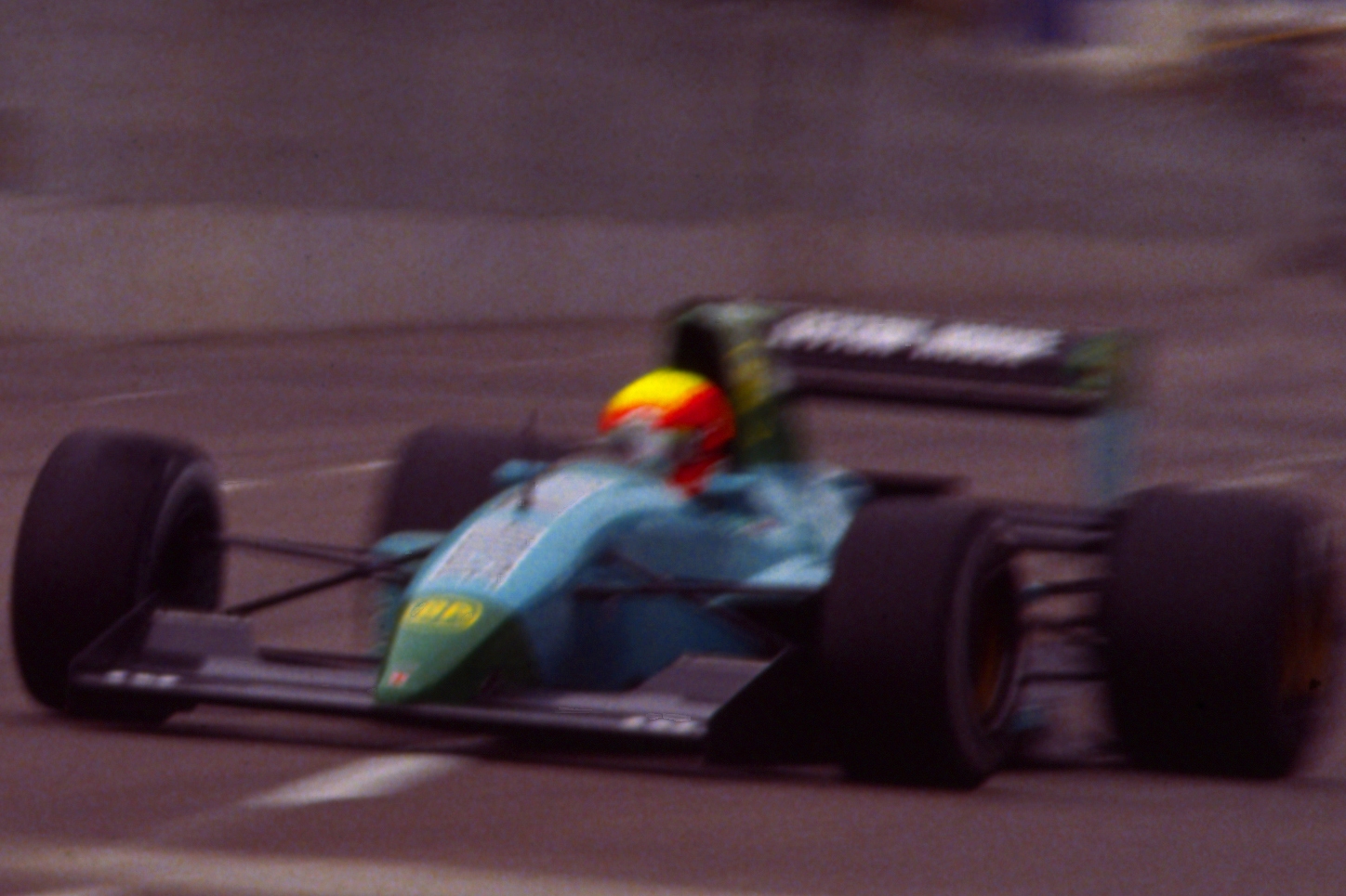 Mauricio Gugelmin in the Leyton House-Ilmor at the 1991 Formula One US Grand Prix - Phoenix, AZ.